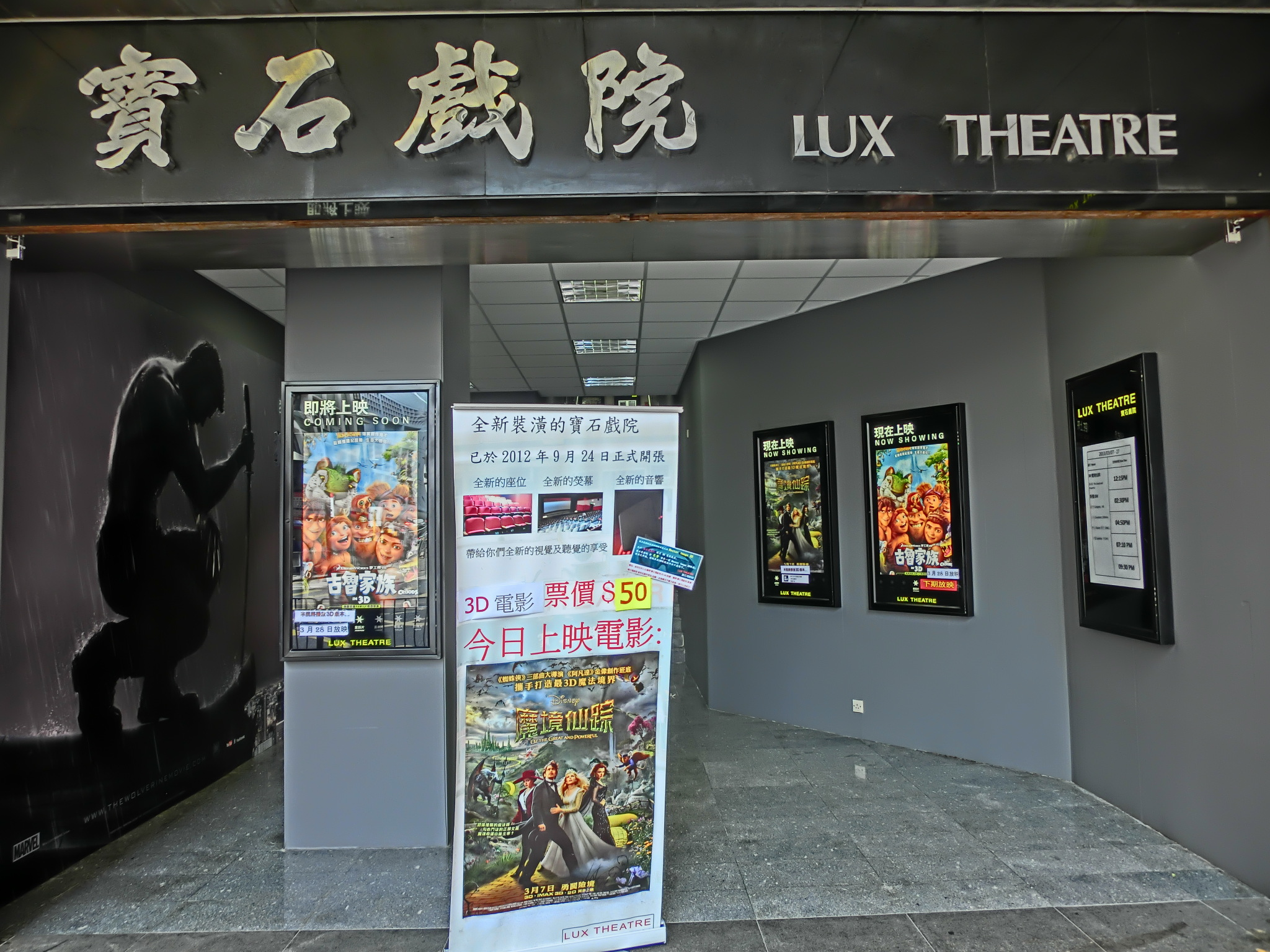 紅磡 寶石戲院, Lux Theatre, Hung Hom, Hong Kong